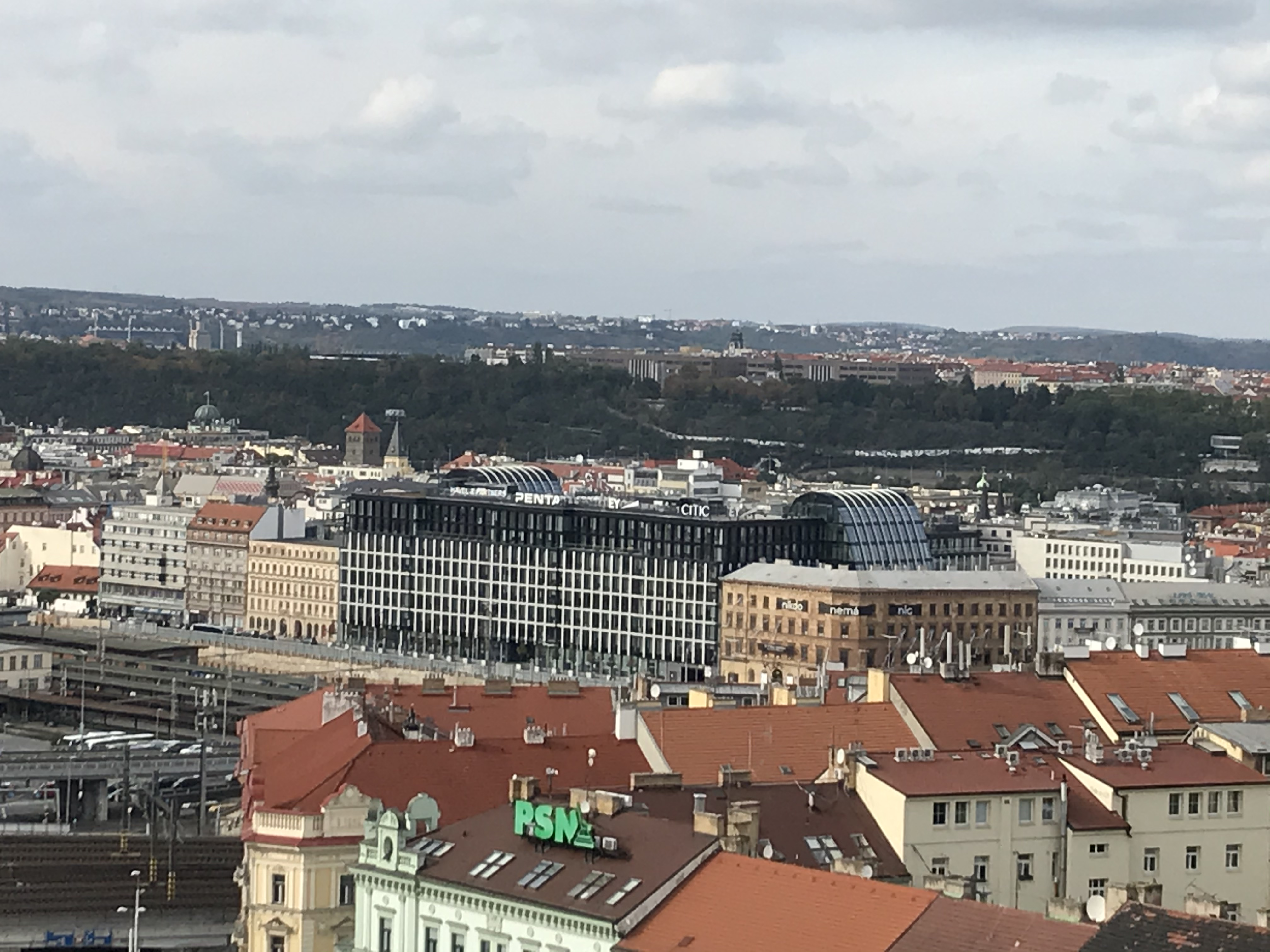 Prague viewed from dům Radost – part of Masarykovo nádraží (train station) and office block Florentinum. Letná park and district in the background.